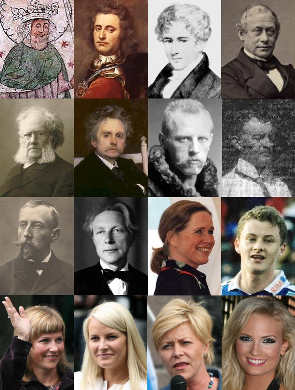 Collage of images representing the Norwegian people. From top left to bottom right: St. Olaf P. Tordenskjold N. H. Abel F. Stang H. Ibsen E. Grieg F. Nansen E. Munch R. Amundsen E. Groven L. Ullmann O. G. Solskjær Pr. Märtha Pr. Mette-Marit S. Jensen L-M. M. Jünge Miss Norway 2007 - Lisa-Mari Moen Junge in Miss World 07, Sanya, China